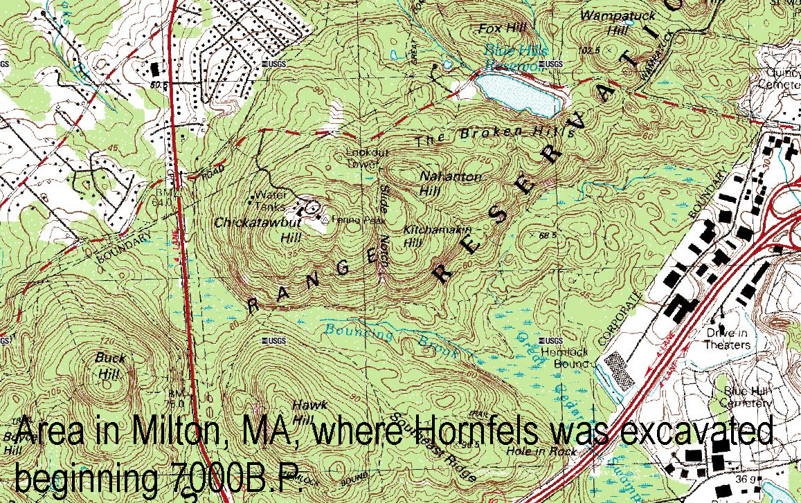 Map showing the area south of Chickatawbut Road, Milton, Massachusetts, where Hornfels was excavated from 7000 B.P. until around 1600 A.D.